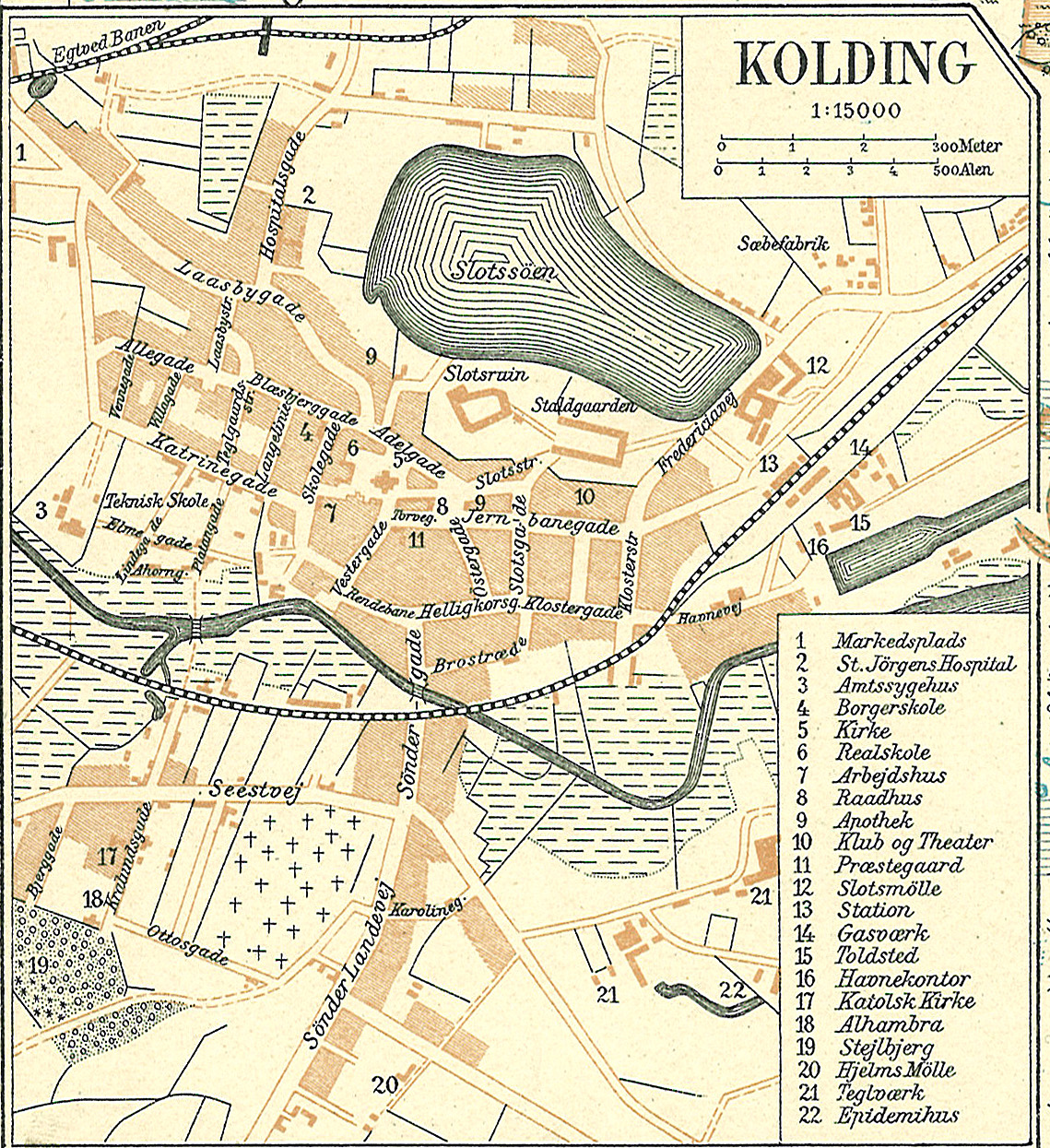 Map of Kolding in Vejle County in Denmark